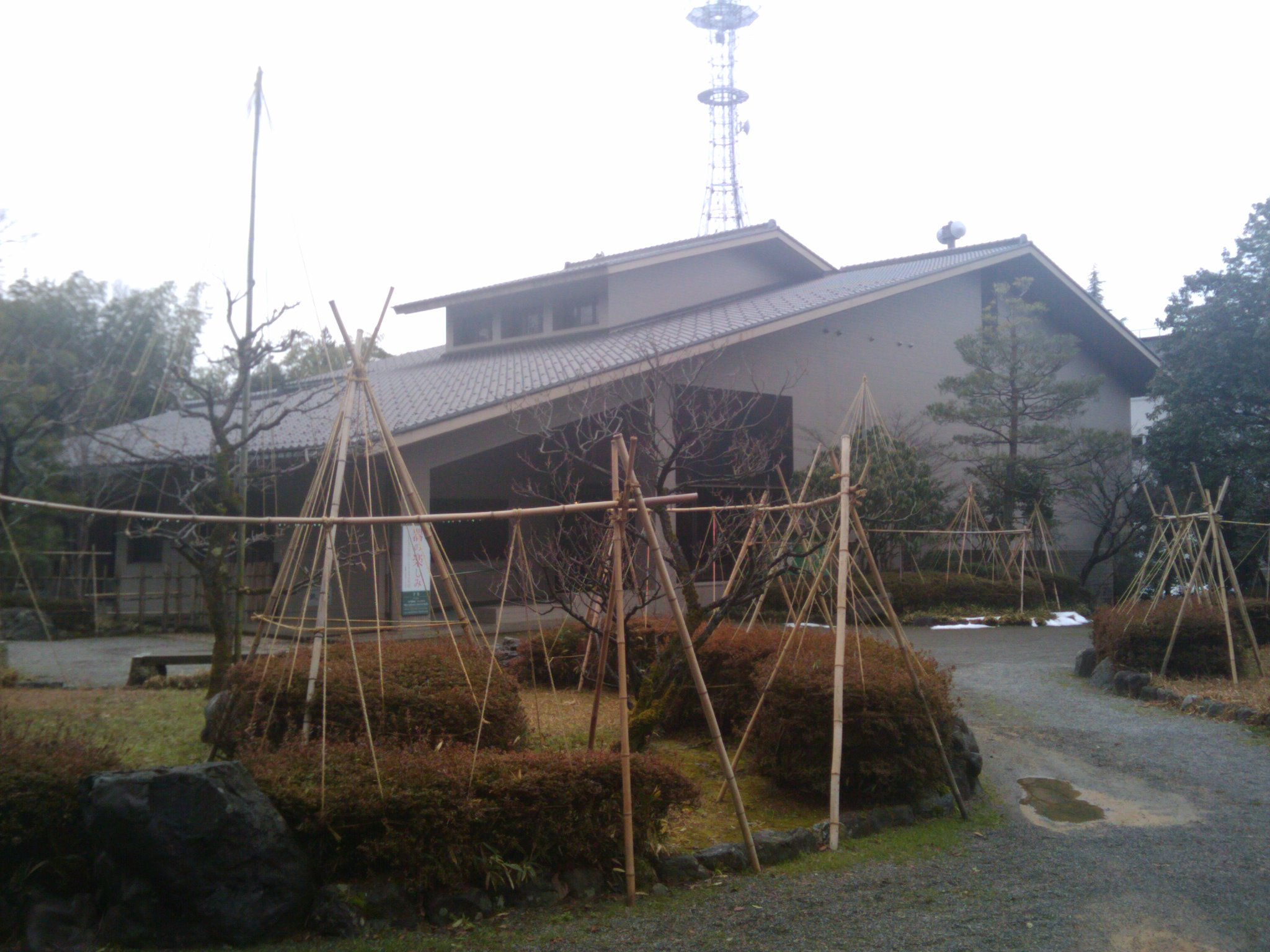 Kanazawa Nakamura Memorial Museum in Kanazawa, Ishikawa, Japan